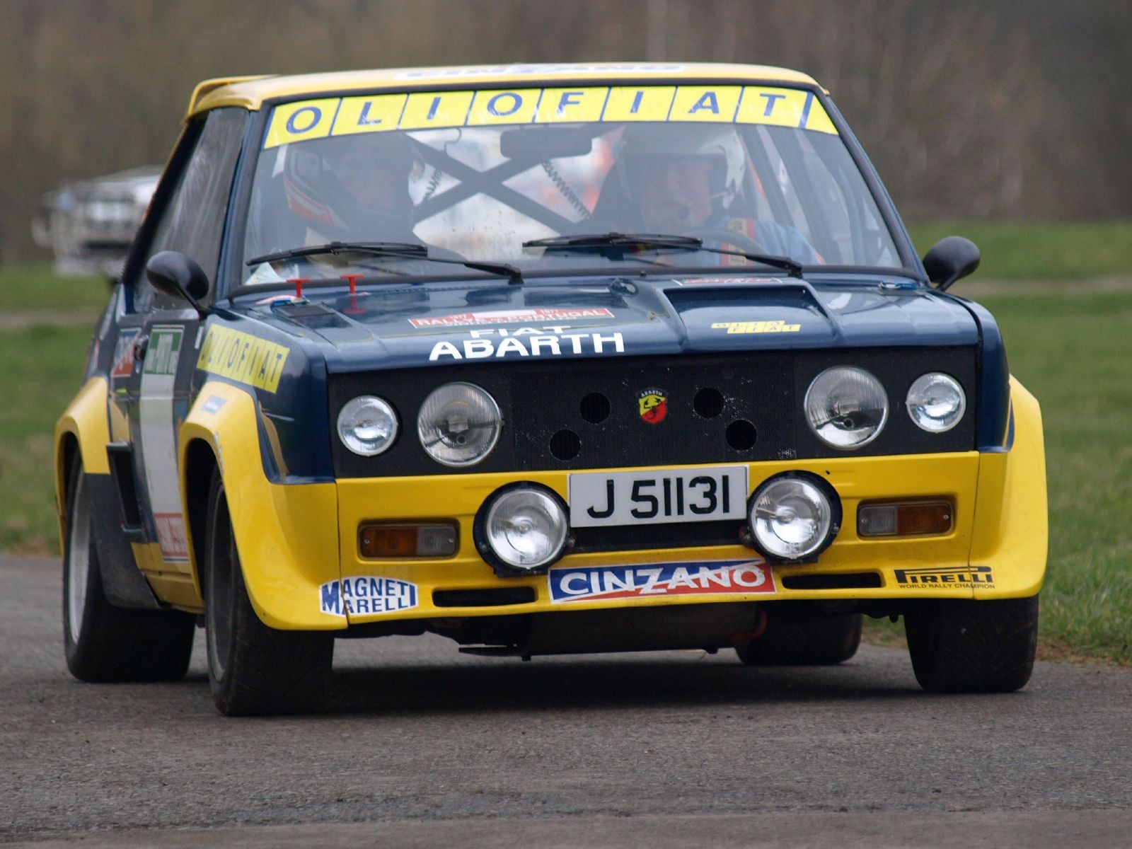 Fiat 131 Abarth driven at Race Retro 2008, the International Historic Motorsport Show, at Stoneleigh Park, Coventry, England.